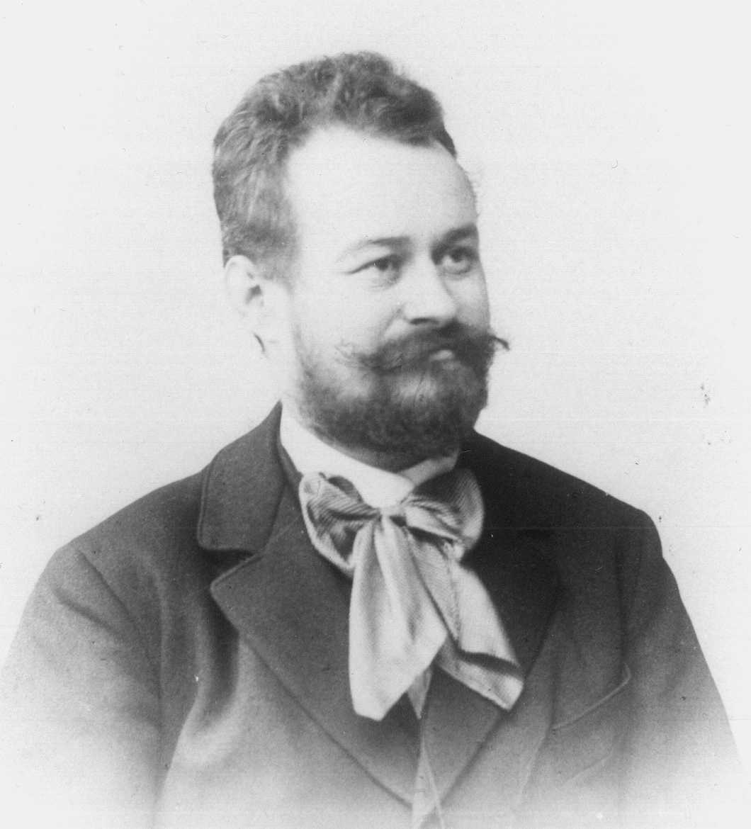 german architect Woldemar Kandler (1866-1929)